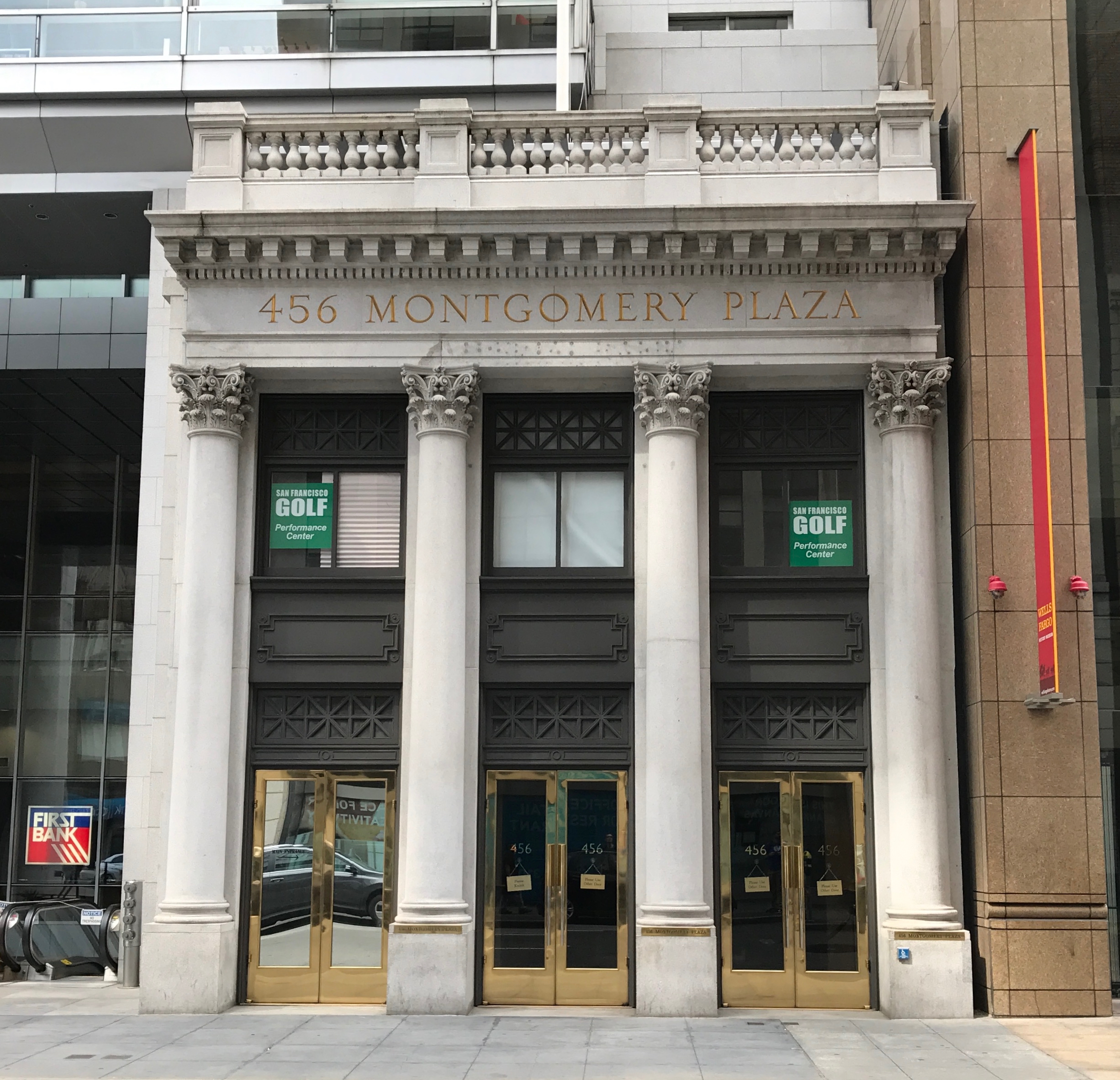 On the list of San Francisco Designated Landmarks. Originally 440 Montgomery, now 456 Montgomery.